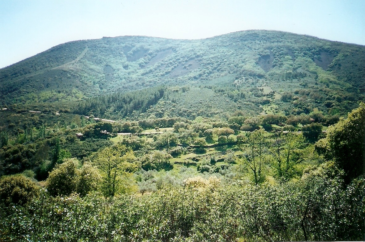 Robledillo is a village within Robledo del Mazo municipality